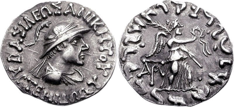 Artemidoros helmetted